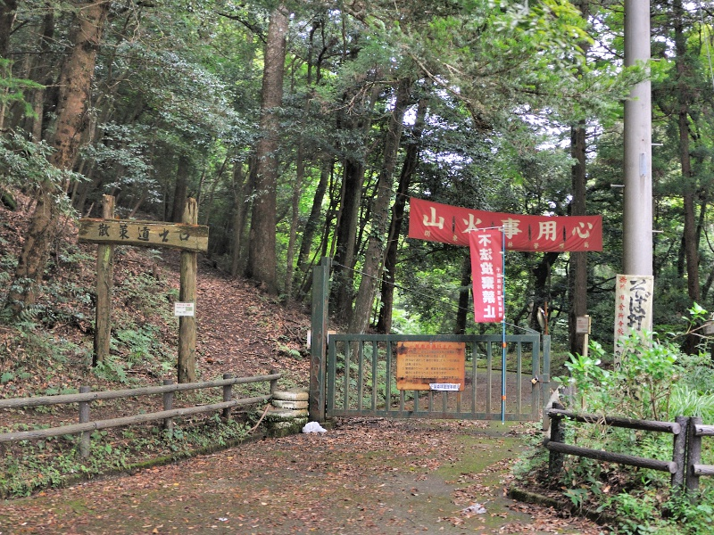 Kaisho Woodland Path